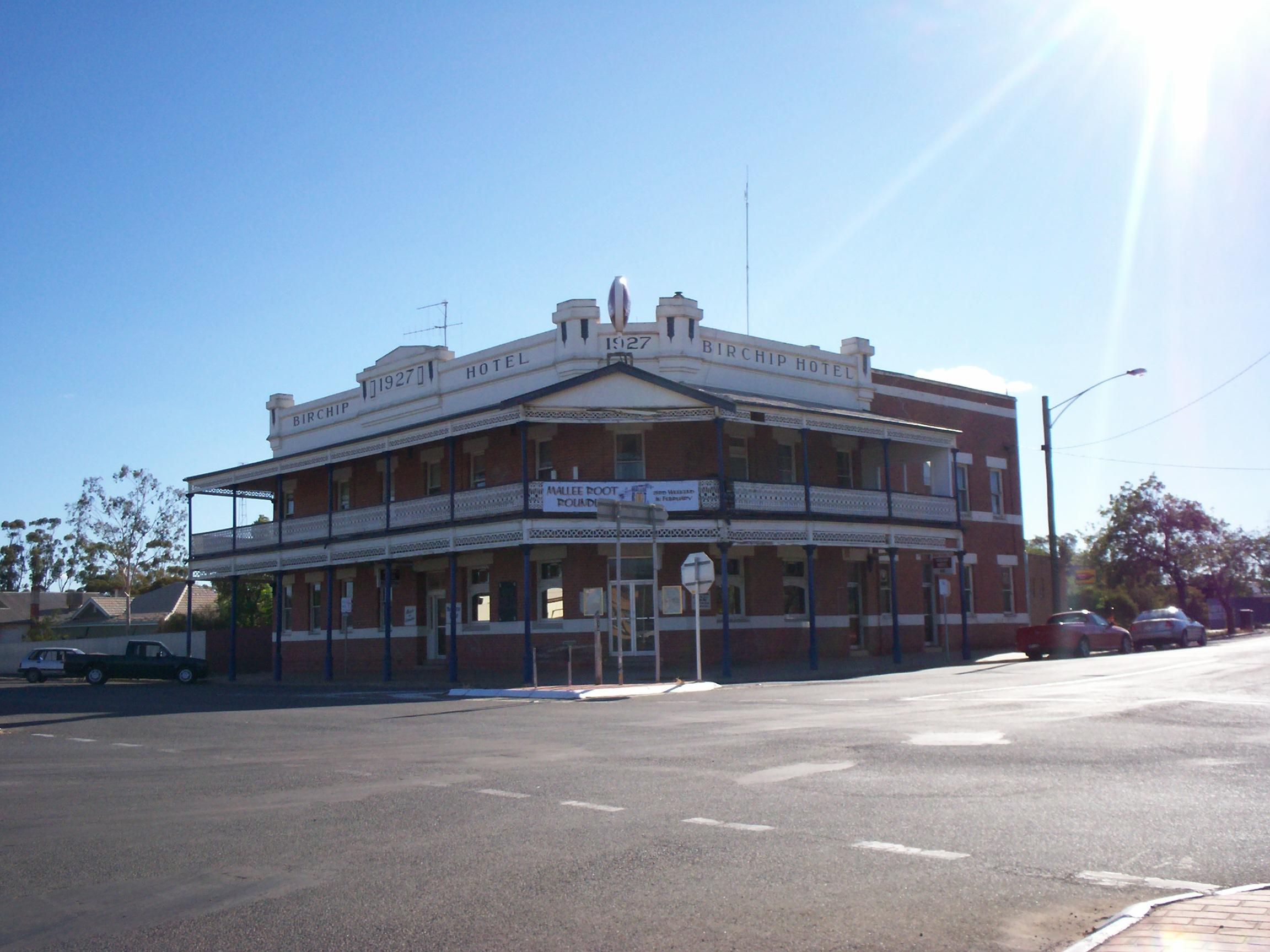 Birchip Hotel, Birchip, Victoria, Australia.